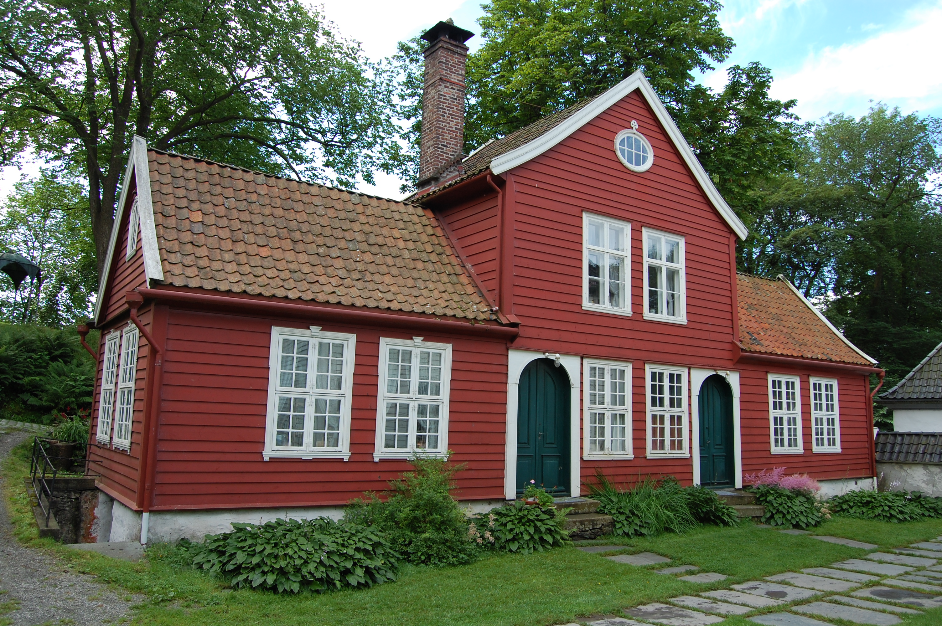 Pakterboligen, Krohnstedet